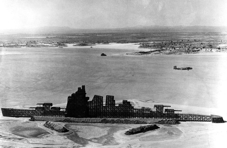 #OTD 28 August 1944 at Edwards - Personnel from the Seventh Air Force arrived to set up a six-week training program for replacement B-25 aircrews on their way to the Pacific Theater. The Pacific Theater Training Program was transferred from Oahu to Muroc AAF in order to reduce seaborne supply traffic, and became the Fourth Air Force's only B-25 "finishing school". As a training aid, a 650 foot wooden replica of a Japanese Atago-class heavy cruiser (soon dubbed the Muroc Maru) was constructed on the south shore of the lakebed as a target for skip-boming practice. (Edwards History Office file photo)